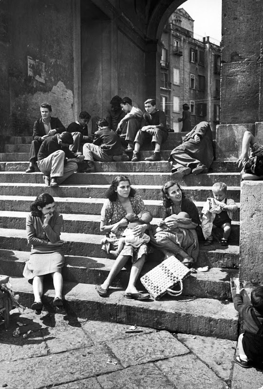 Young mothers feeding their babies on the steps of the church of San Francesco di Paola while a gang of unemployed boys play cards in the background.